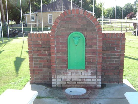 Bulls head fountain cast in Torino, Piemonte, Italia and located at Immigrant Plaza in Clinton, Indiana, USA.